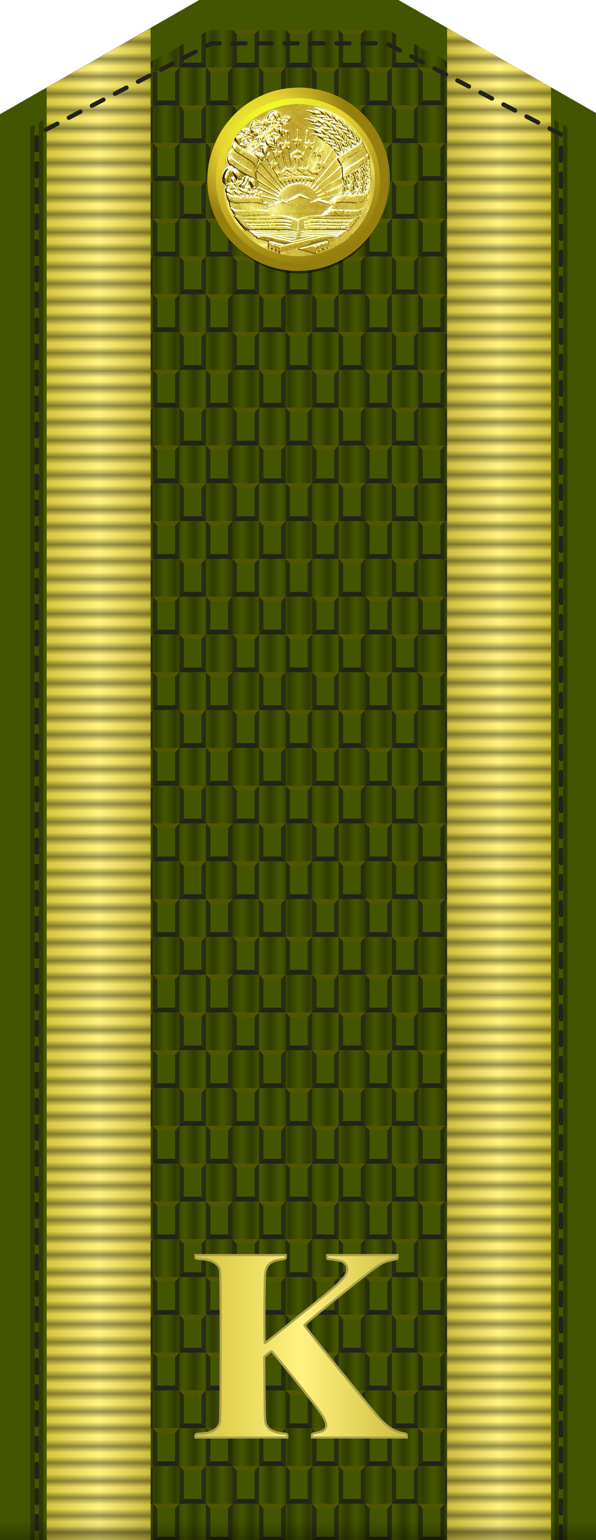 Тоҷикӣ: Rank insignia of Officer Cadet for the Tajikistan Army